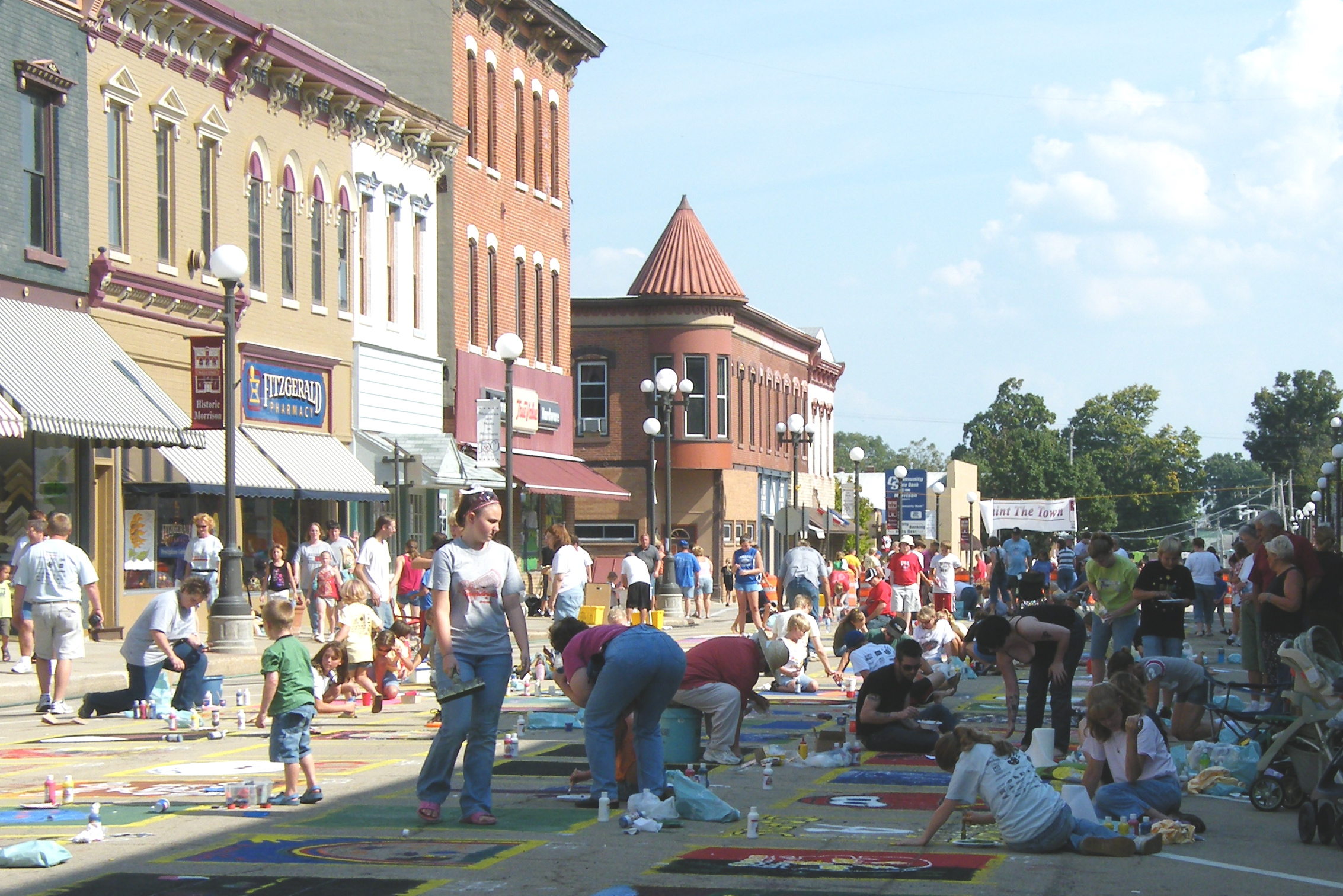 Paint the Town, Morrison's signature event, every third Saturday in September